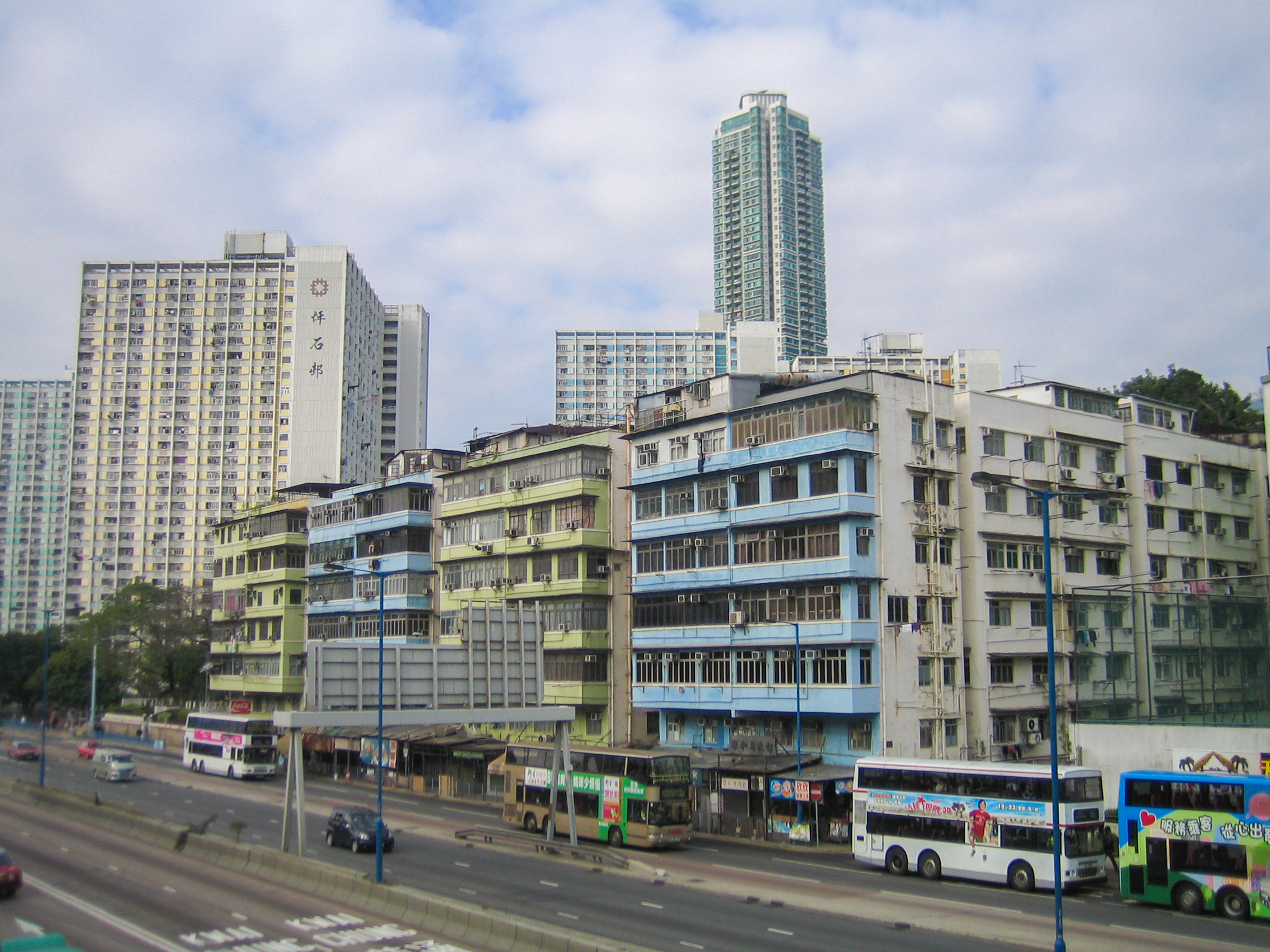 This is Kai Tak Mansion which is taken from the footbridge at Kai Yip Estate, Kwun Tong Road, Hong Kong. If you have any questions about the licensing (like cc-by-sa, GFDL), or you want to republish the image without using the licensing shown as below, you are welcome to leave a message on the User Talk Page of my Chinese Wikipedia account. 中文（香港）: 這是位於香港九龍觀塘道啓德大廈，拍攝地點是香港九龍觀塘道啟業邨行人天橋。如你對這照片版權許可協議 (例cc-by-sa, GFDL) 有疑問，或你想把照片不用以下的版權協議轉載，歡迎你到我在中文維基百科的用戶對話頁留言。